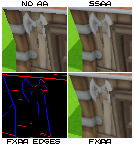 This is a comparison of 3D images rendered with no antialiasing, supersampling (SSAA) and FXAA antialiasing. I've implemented the FXAA algorithm myself in python and it isn't precisely the same as the original version for the GPUs, but the principle is the same. The 3D scene and fonts were all creates completely by me, I used no one else's work.